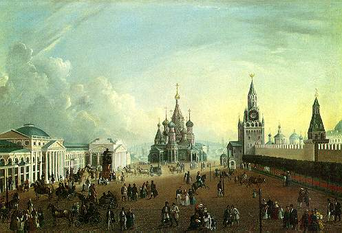 Moscow Artist